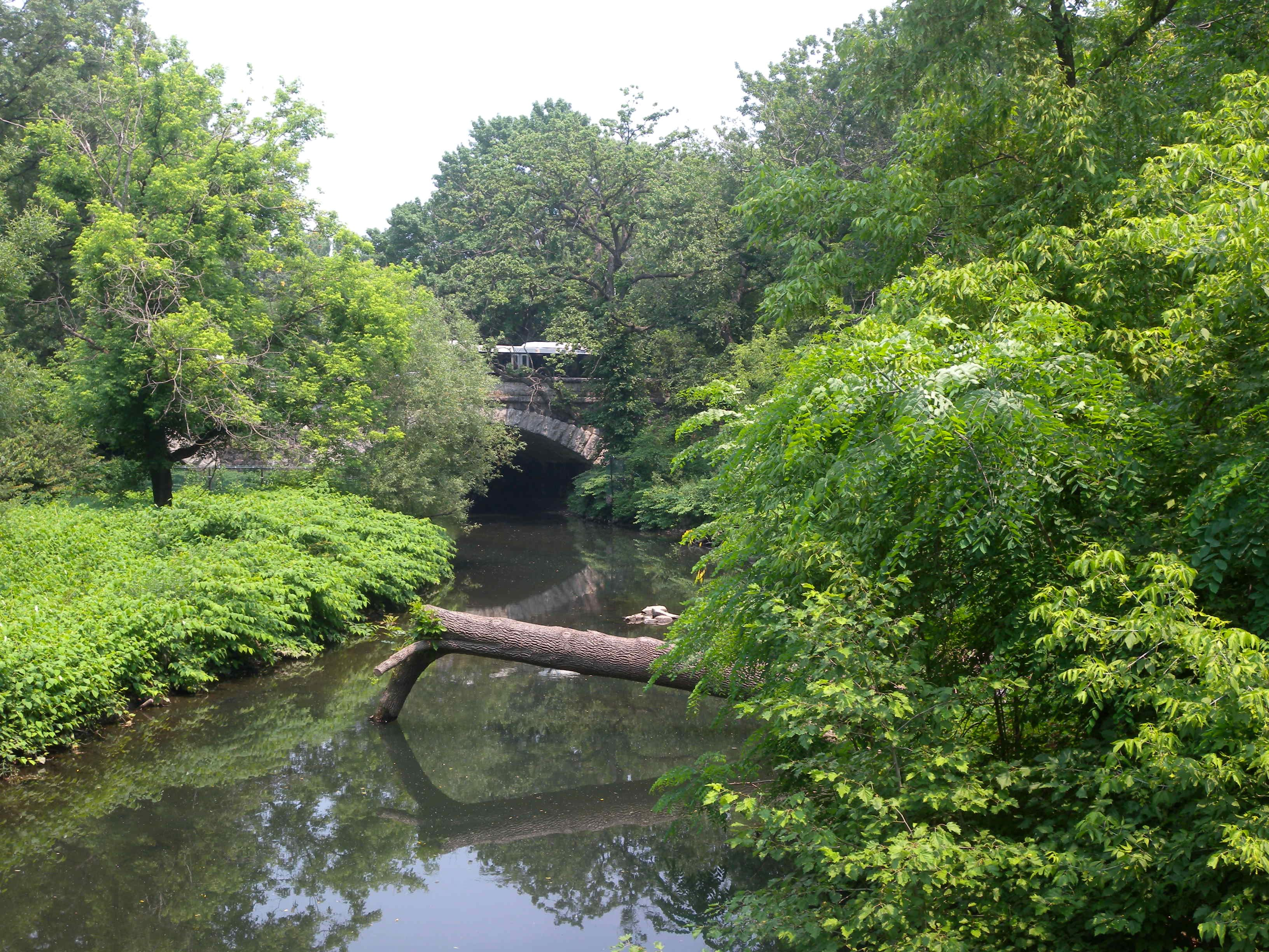 Looking north at park road bridge on a hazy midday.